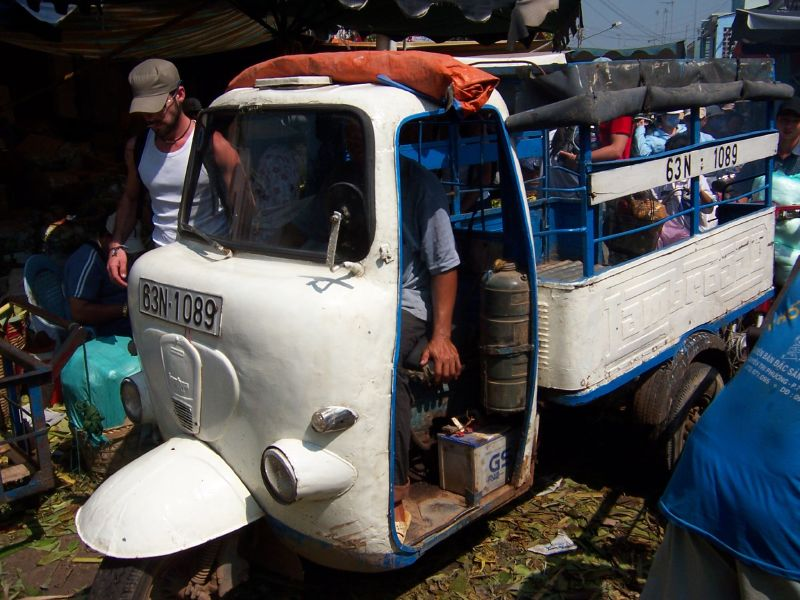 A tuktuk in My Tho, South Vietnam.